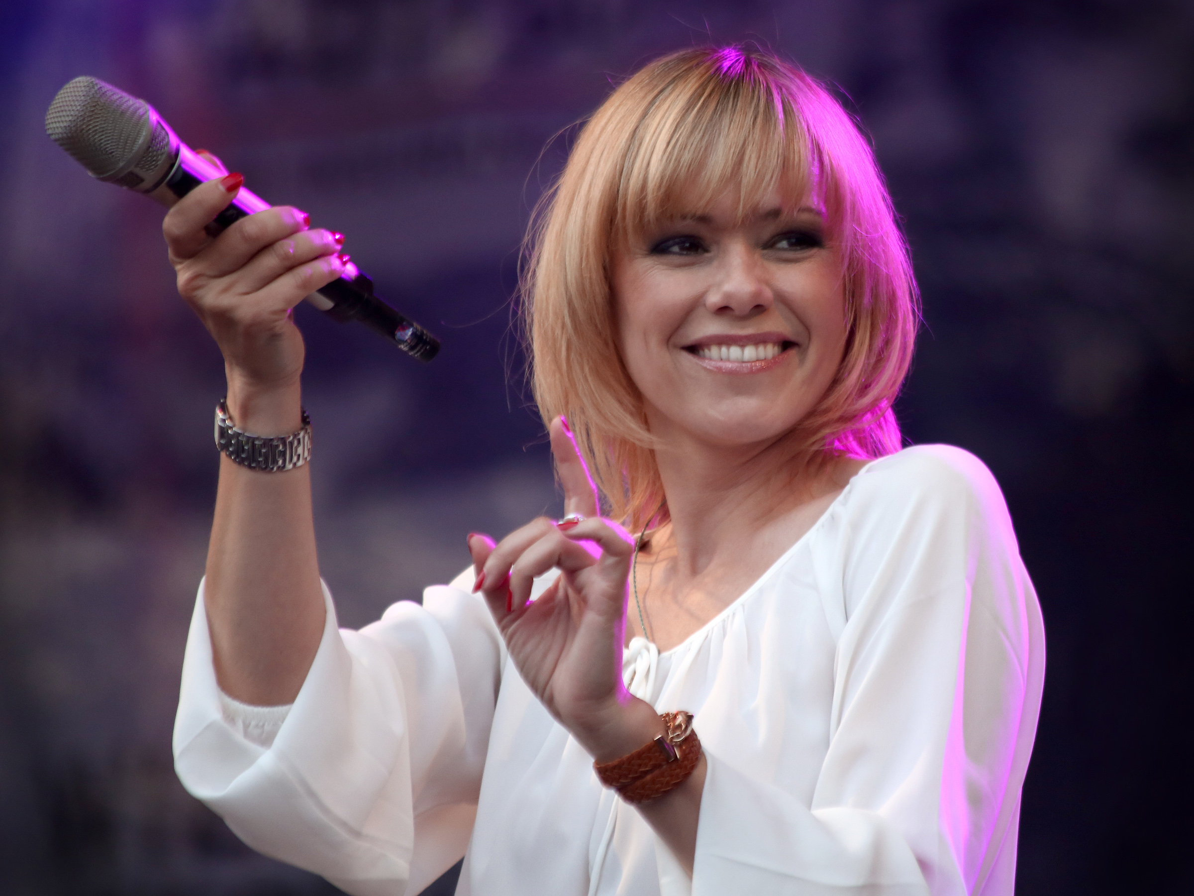 Francine Jordi at Donauinselfest 2014 in Vienna, Austria